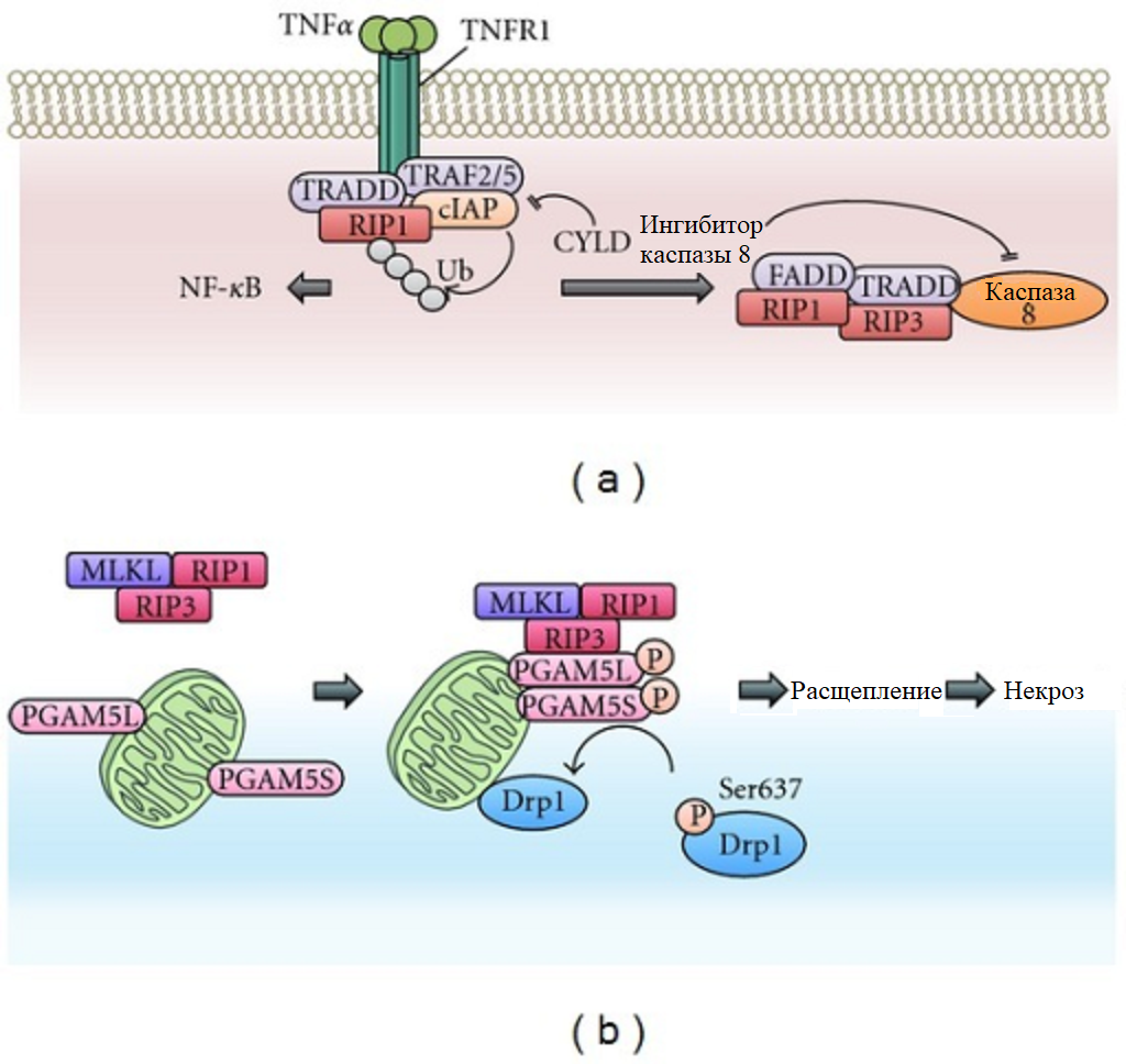 Necroptosis Pathway Diagram